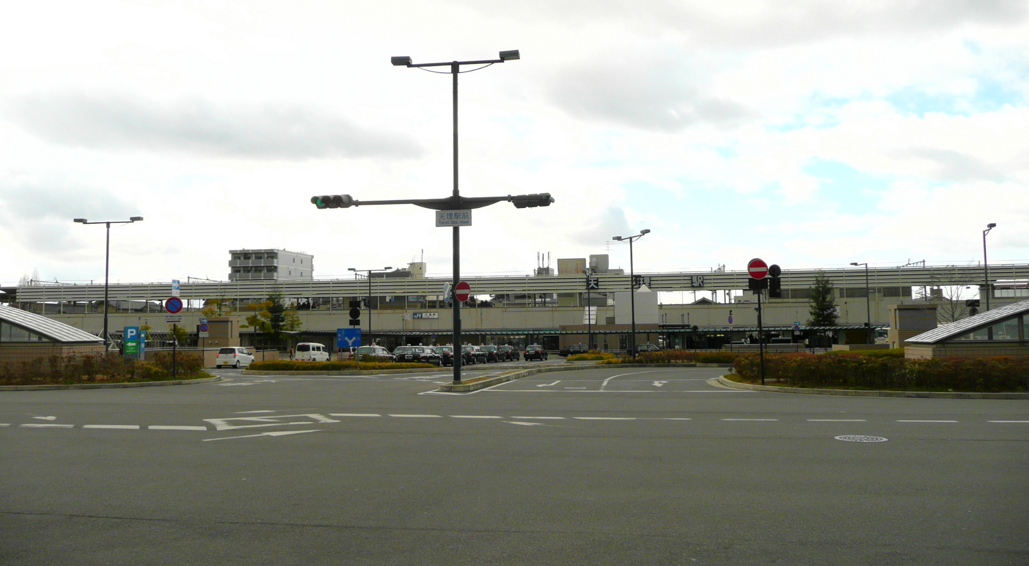 Kinki Nippon Railway,Tenri Line & West Japan Railway,Sakurai Line,Tenri Station. / 天理駅